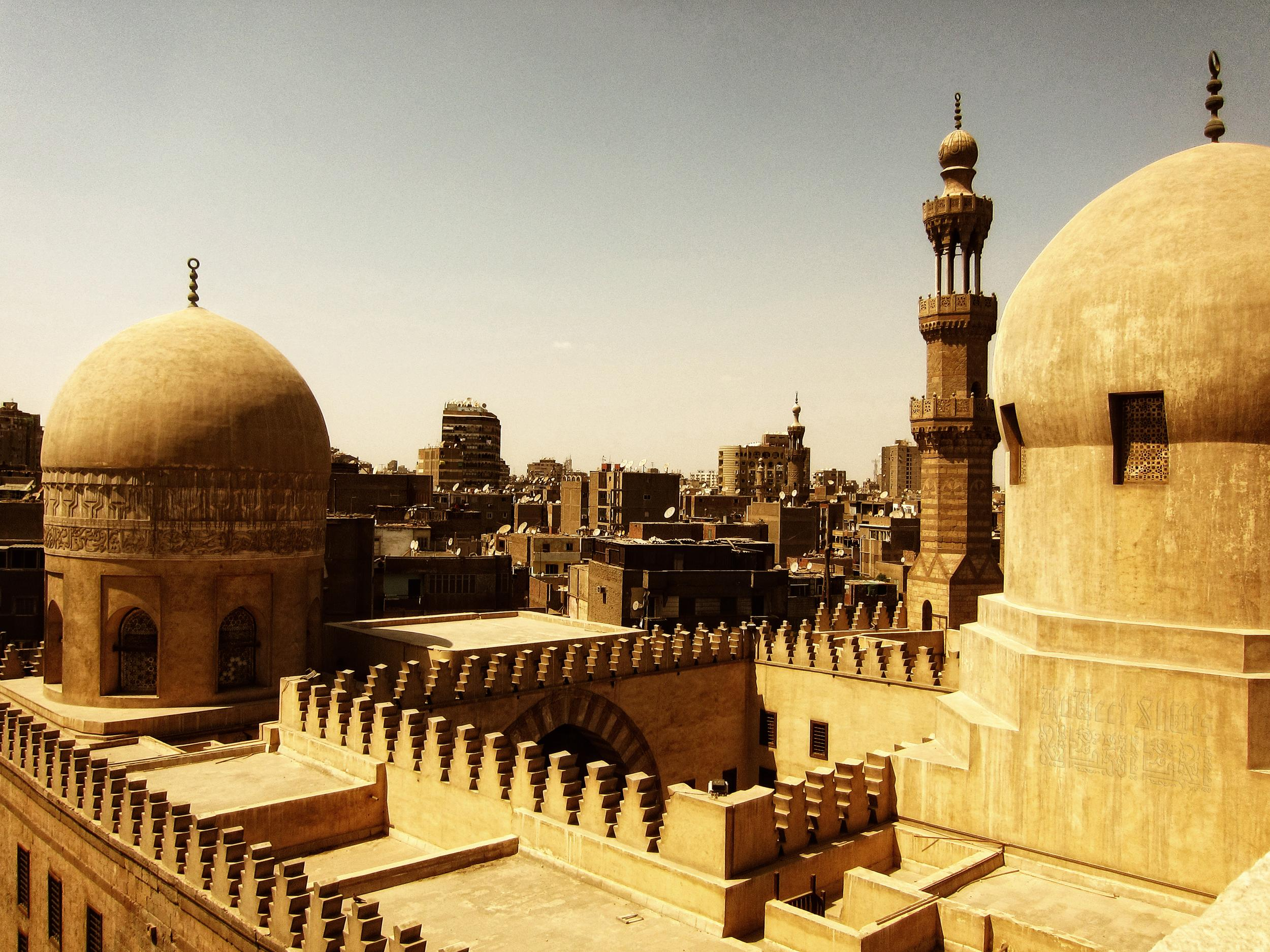 Mosque-Madrasa of Emir Sarghatmish The Madrasa of Emir Sarghatmish locates in Saliba Street behind the Ibn Tulun Mosque and few meters away from the complex of Salar and Sangar . It was established by Emir Sarghatmish who was a famous Mamluk of Sultan El-Nasir Mohamed and grew up in the corps of Jamdars , or keepers of the wardrobe . In 1358 , Sarghatmish was murdered and was buried in his mausoleum in the Madrasa . Source.